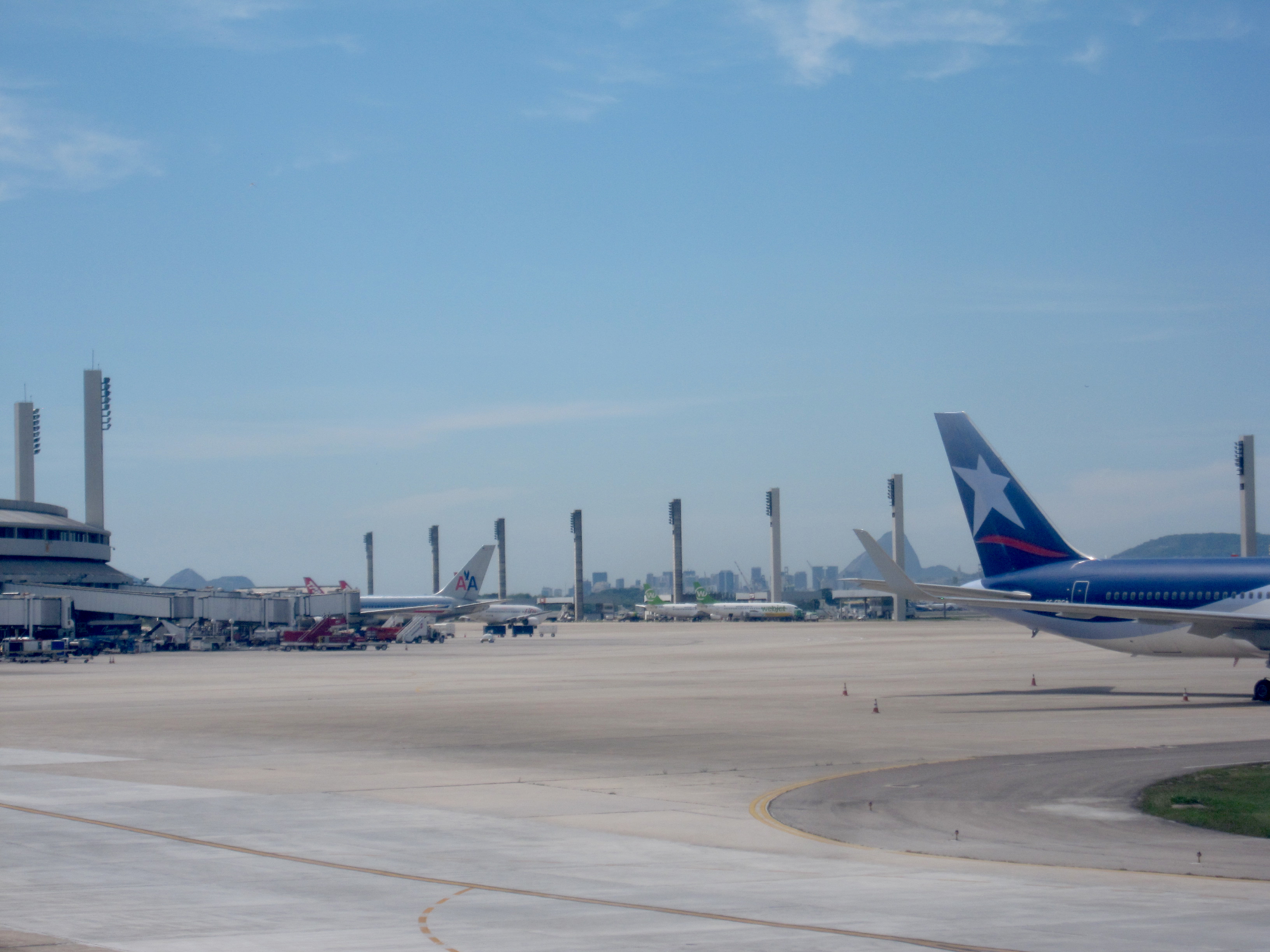 View on Rio de Janeiro-Galeão International Airport on December 2011.